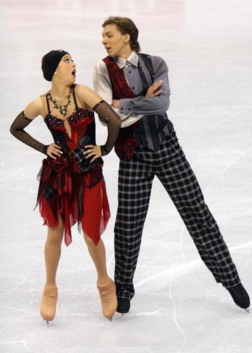 2008 Skate Canada; Ekaterina Bobrova and Dmitri Soloviev OD - Rhythms of the 1920s, 1930s, and 1940s